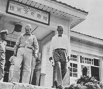 Ryukyuan-American Cultural Center